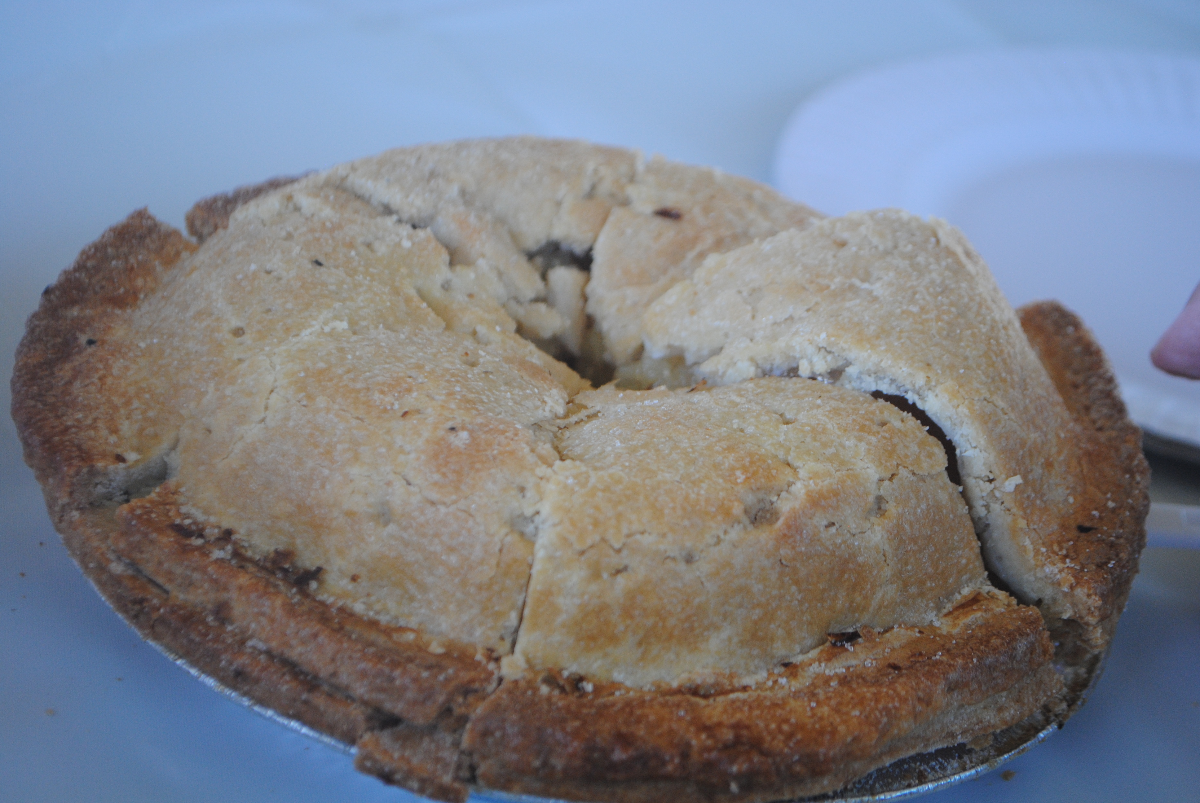 Yatala Pie Shop, full pie, 2015